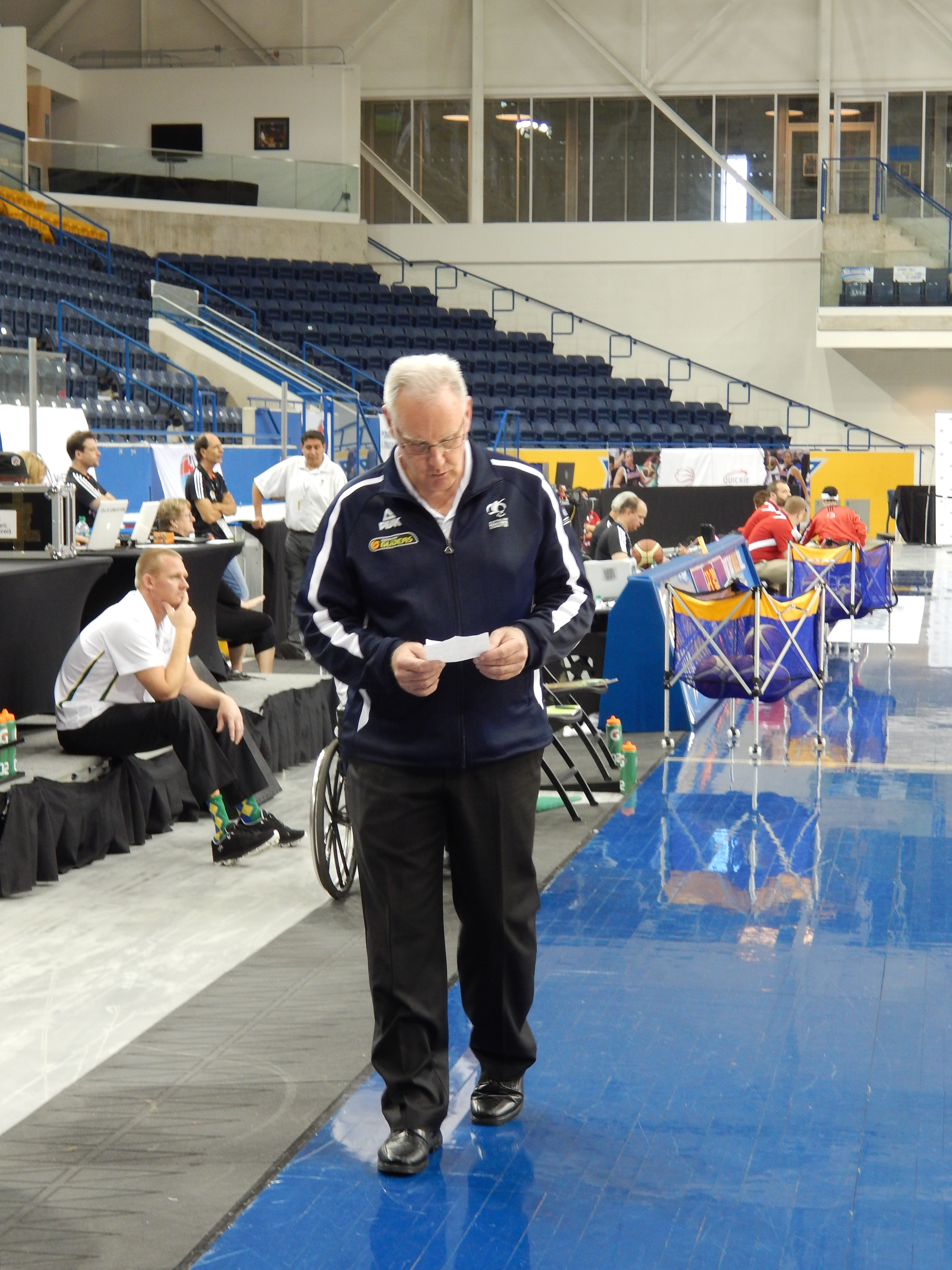 Tom Kyle, coach of the Australian Women's wheelchair basketball team(Gliders)